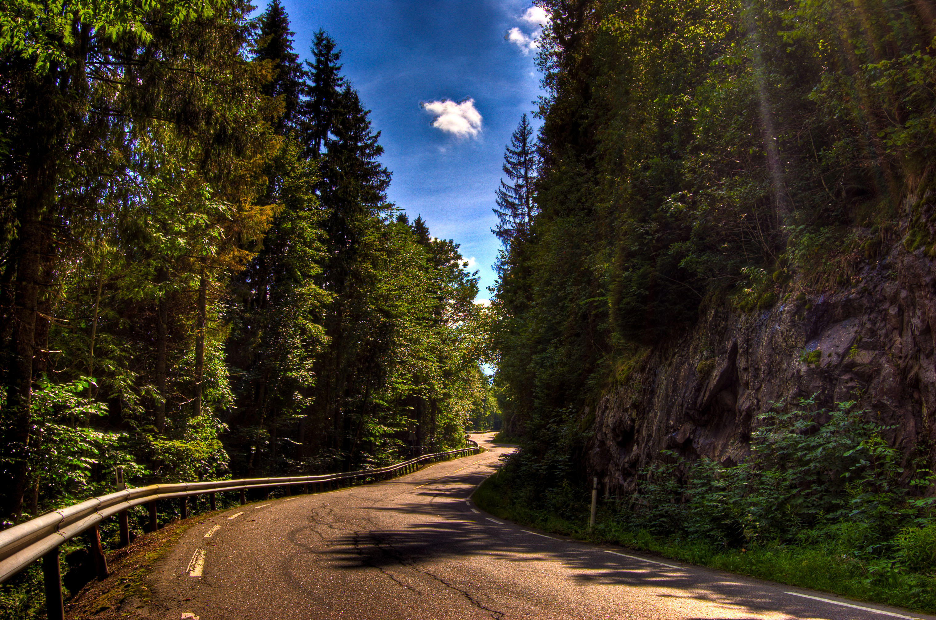 A part of the national road 306, Vestfold, Norway